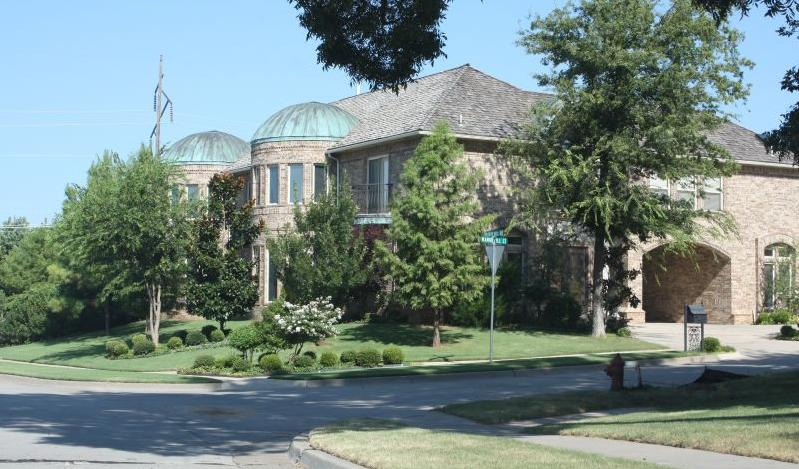 Upscale housing in a west Norman, OK neighborhood.